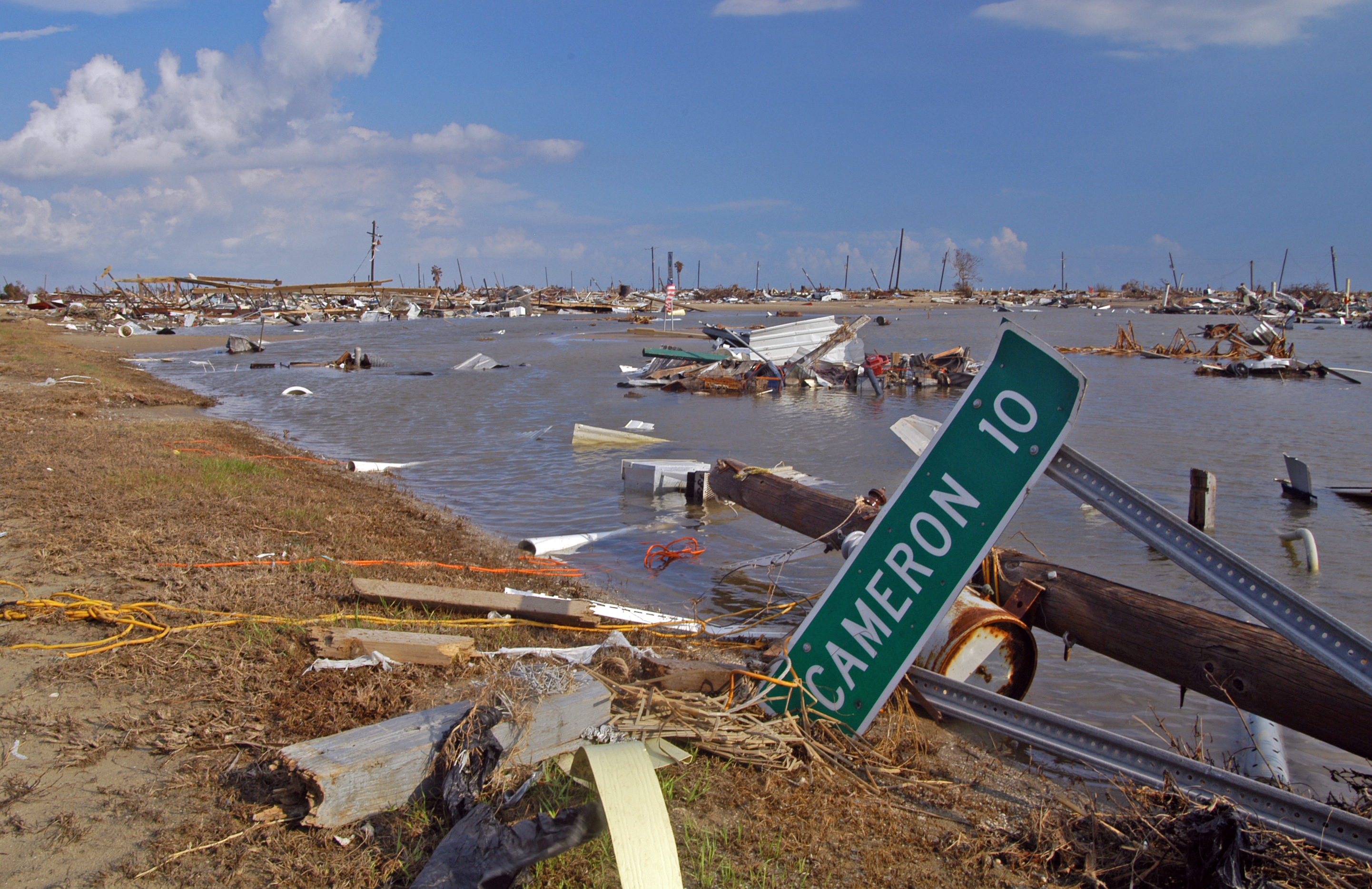 Holly Beach, La., October 3, 2005 - Ten miles west of Cameron, La., this Gulfside community once called home by 300 residents now lies in shambles. Hurricane Rita destroyed numerous structures and severely damaged power and utility systems along a long stretch of Highway 27 in lower Cameron Parish. Win Henderson / FEMA